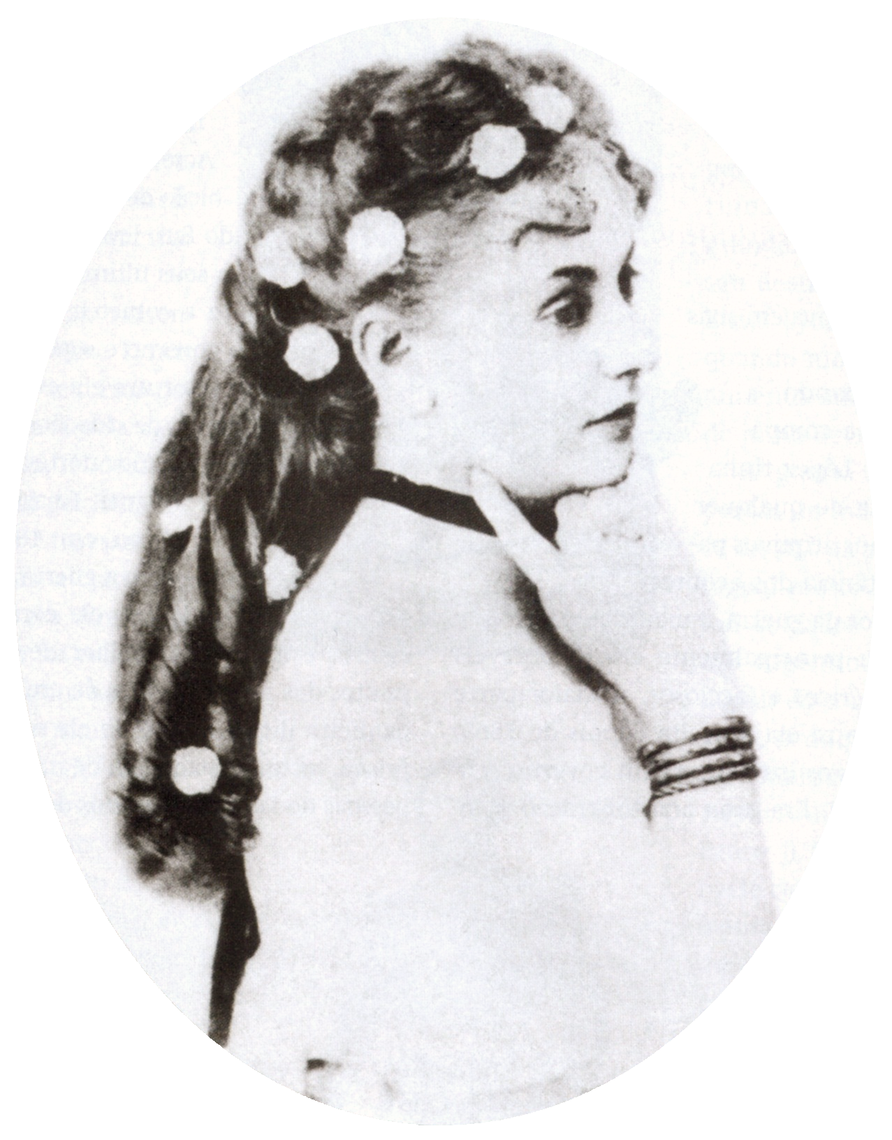 Eliza Lynch, long time companion of Paraguayan dictator Francisco Solano López, c.1864